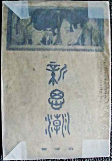 Cover of the first issue of Shinshichō